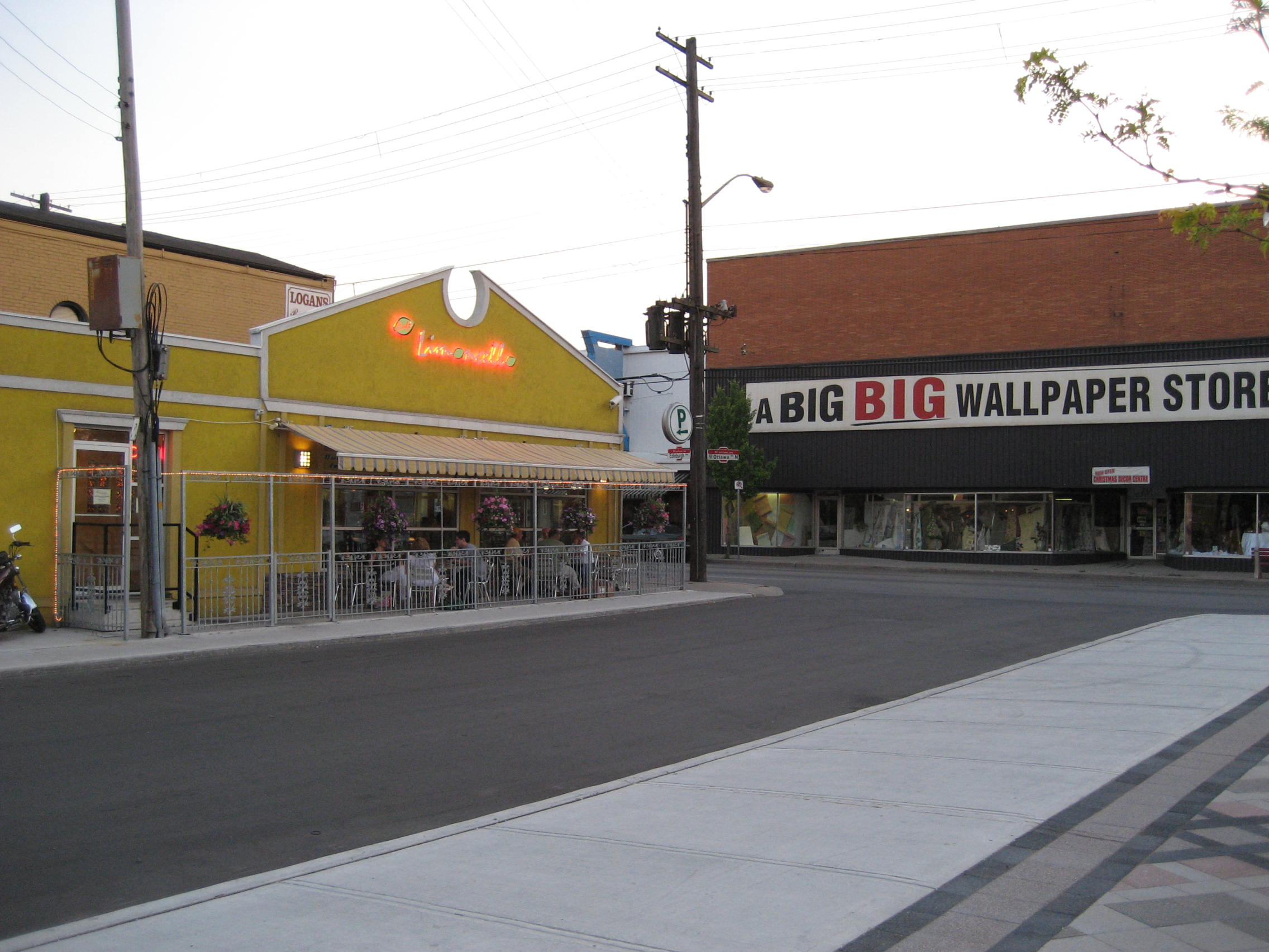 Ottawa Street North, Textile District, Hamilton, Ontario